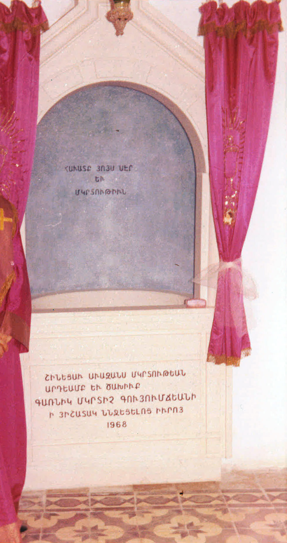 Magaravank's baptistery